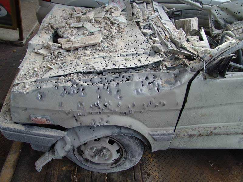 A car in Haifa, Israel damaged by shrapnel after a rocket attack during the 2006 Israel-Lebanon conflict.